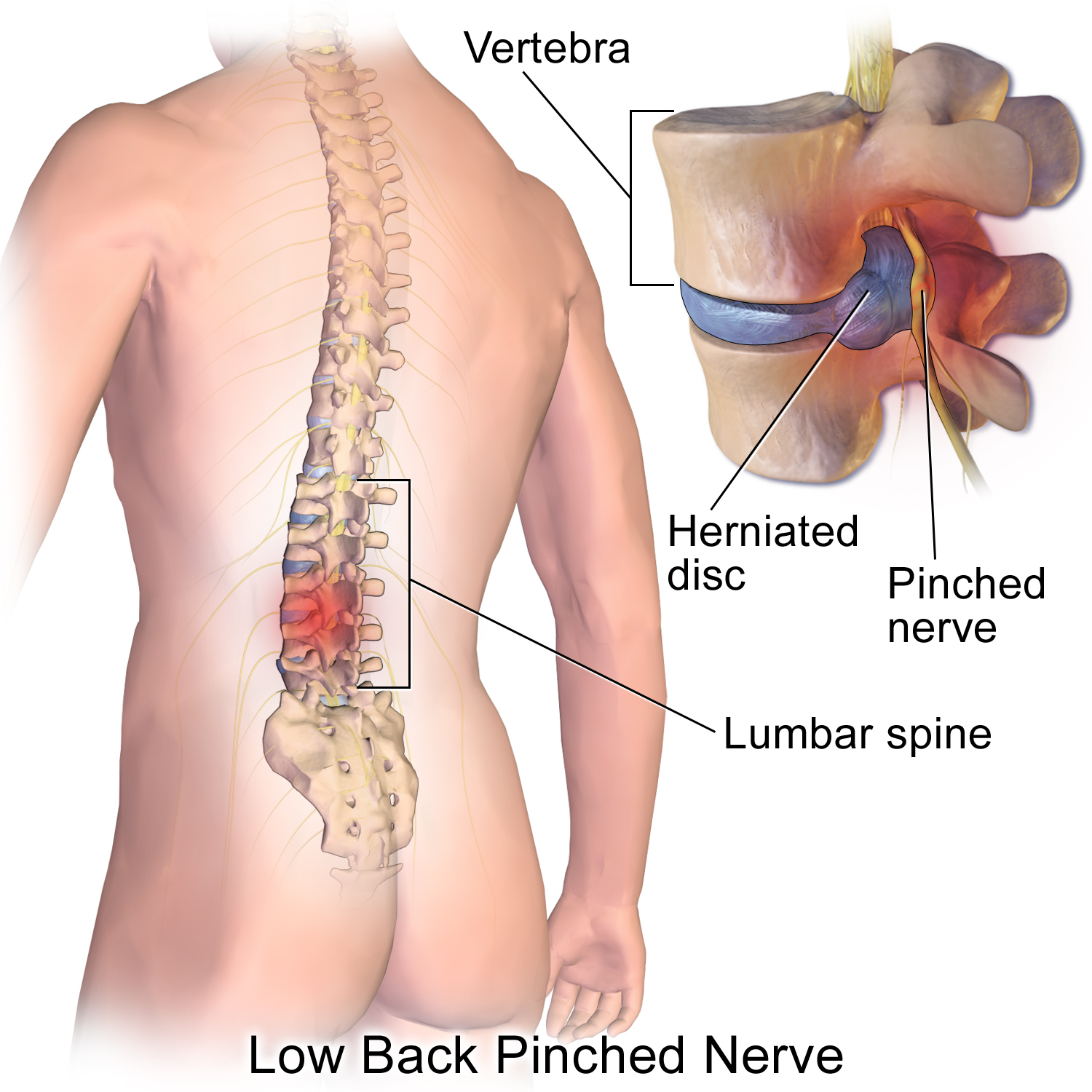 Herniated Lumbar Disc. See a related animation of this medical topic.